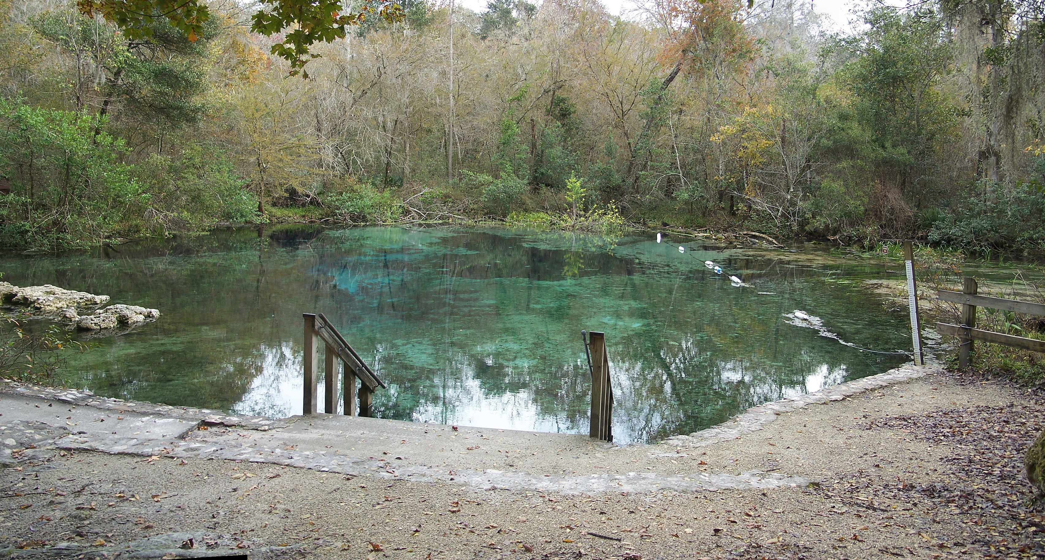 Ichetucknee Springs State Park: Head Spring. Panorama view.